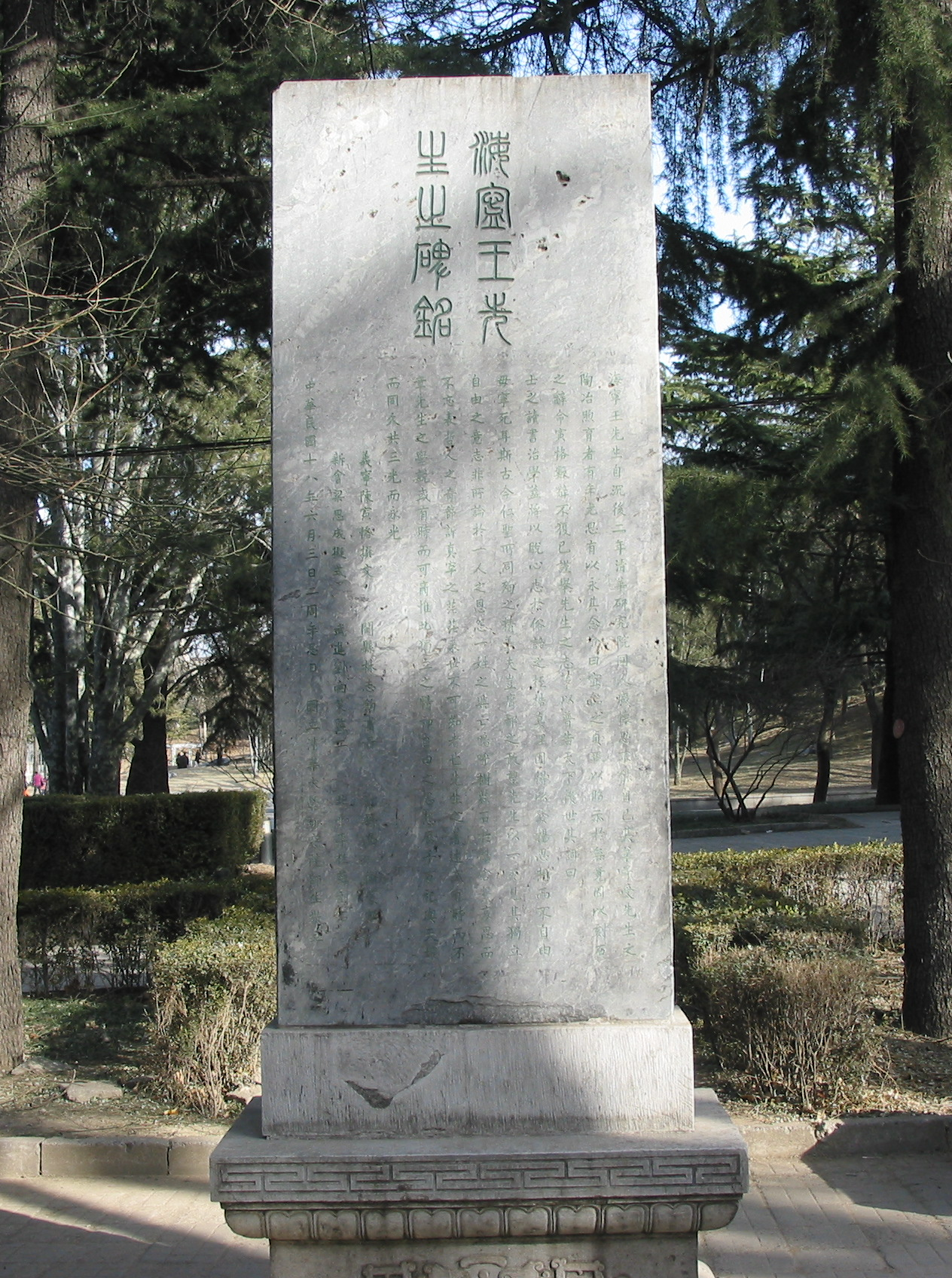 The back side of the Monument of Wang Guowei (1877-1927) in Tsinghua University, north to the Classroom No.1. This side has the full monument text written by Chen Yinke. The monument is designed by Liang Sicheng.